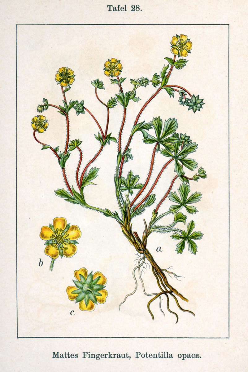 Potentilla heptaphylla subsp. heptaphylla, syn. Potentilla opaca L., pro parte Original Description Mattes Fingerkraut, Potentilla opaca